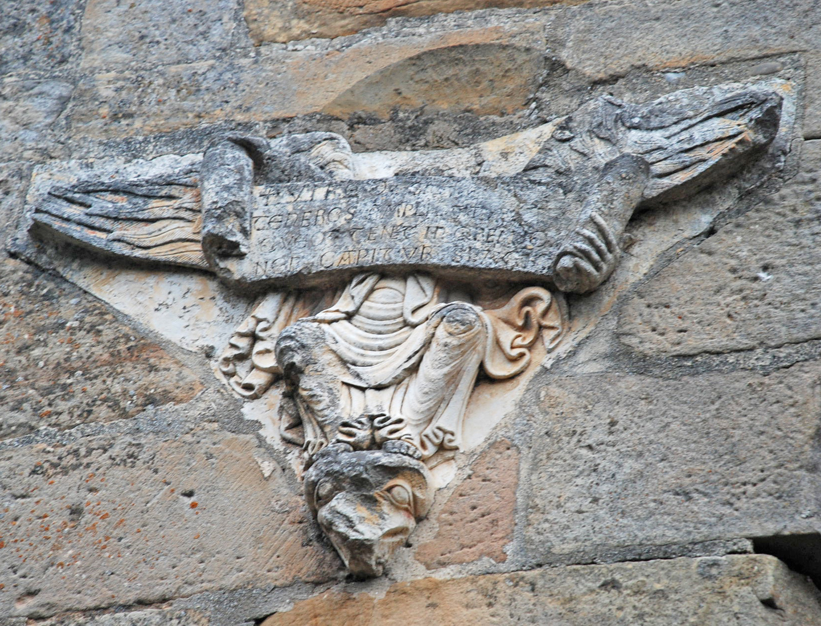 Romanesque inscription in the Monastery of Santa María la Real in Aguilar de Campoo (Palencia, Castile and León).